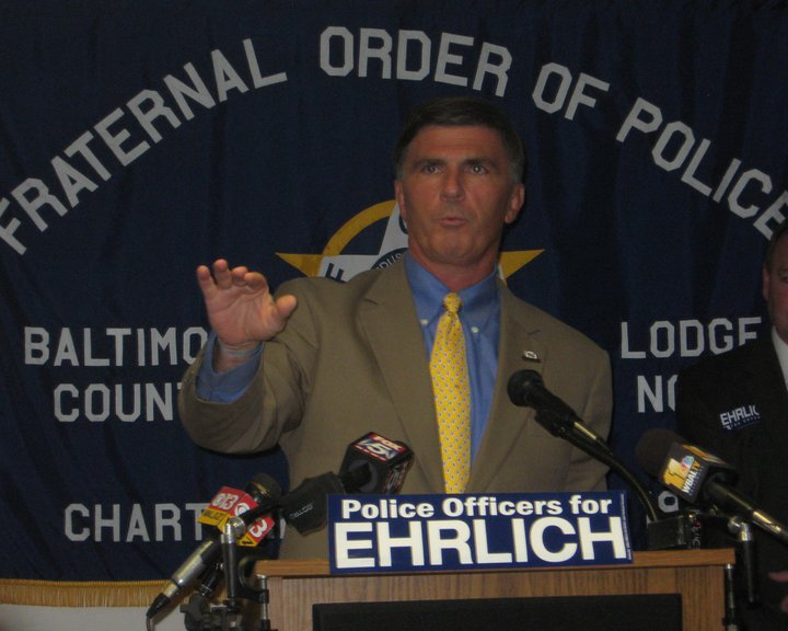 The Fraternal Order of Police endorsed Bob Ehrlich for reelection